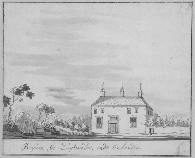 The Beyum borg, drawn by J. Stellingwerf ± 1723 after a drawing by Joris Camp from ± 1672